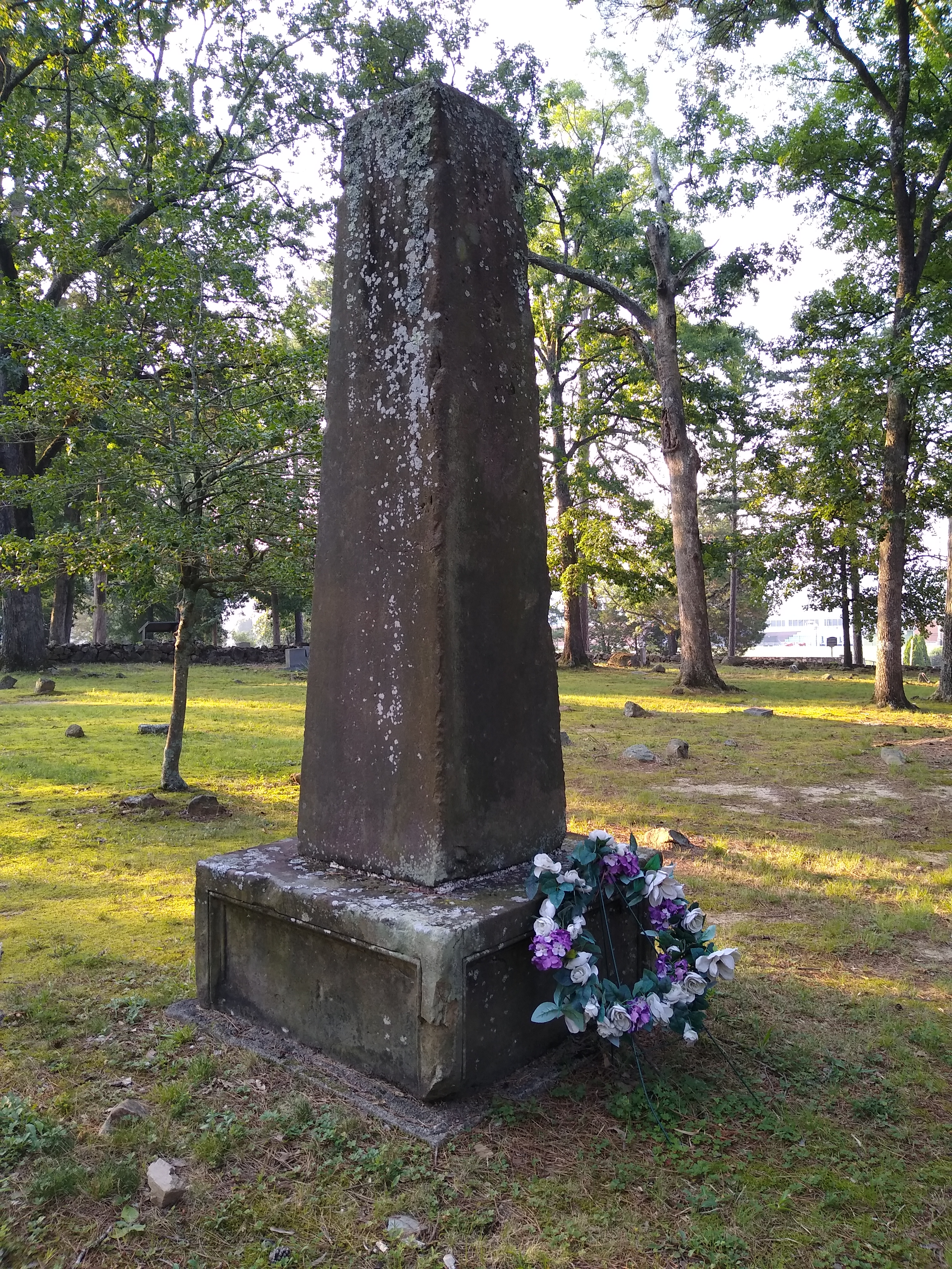 Monument to Wilson Swain Caldwell placed by the UNC class of 1891 at the Old Chapel Hill Cemetery. The plaque reads: Members of the class of 1891 place this stone to the memory of Wilson Swain Caldwell (who lies here) November Caldwell David Barham and Henry Smith who served the university faithfully